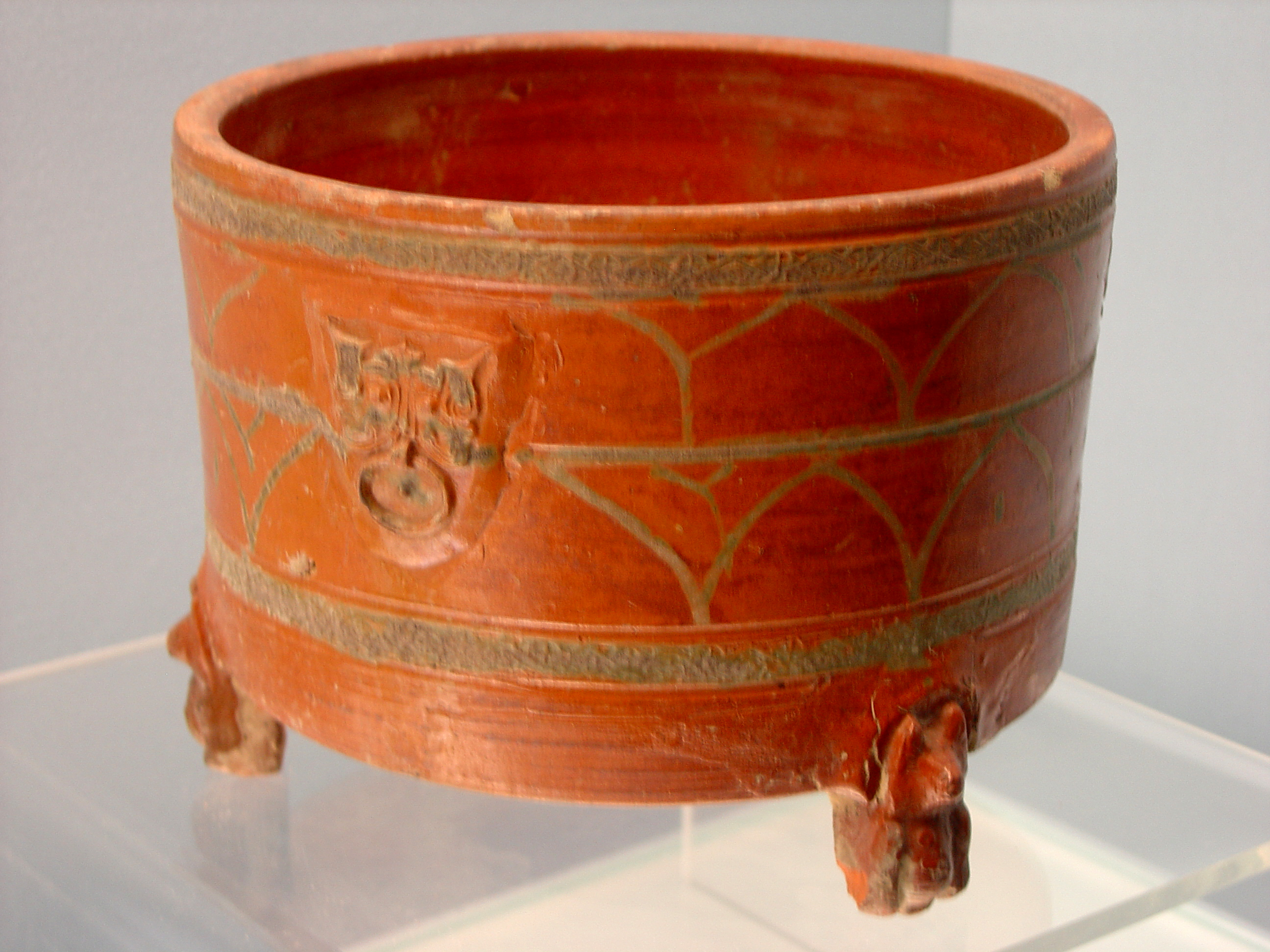 Cosmetic Box. Eastern Han Dynasty, 25 - 220 AD. Shanghai Museum A touch of classicism can perhaps be seen in the restrained elegance of this cosmetic box. (lian). It is glazed in brown and green, with carved lotus petal design and small, zoomorphic feet.